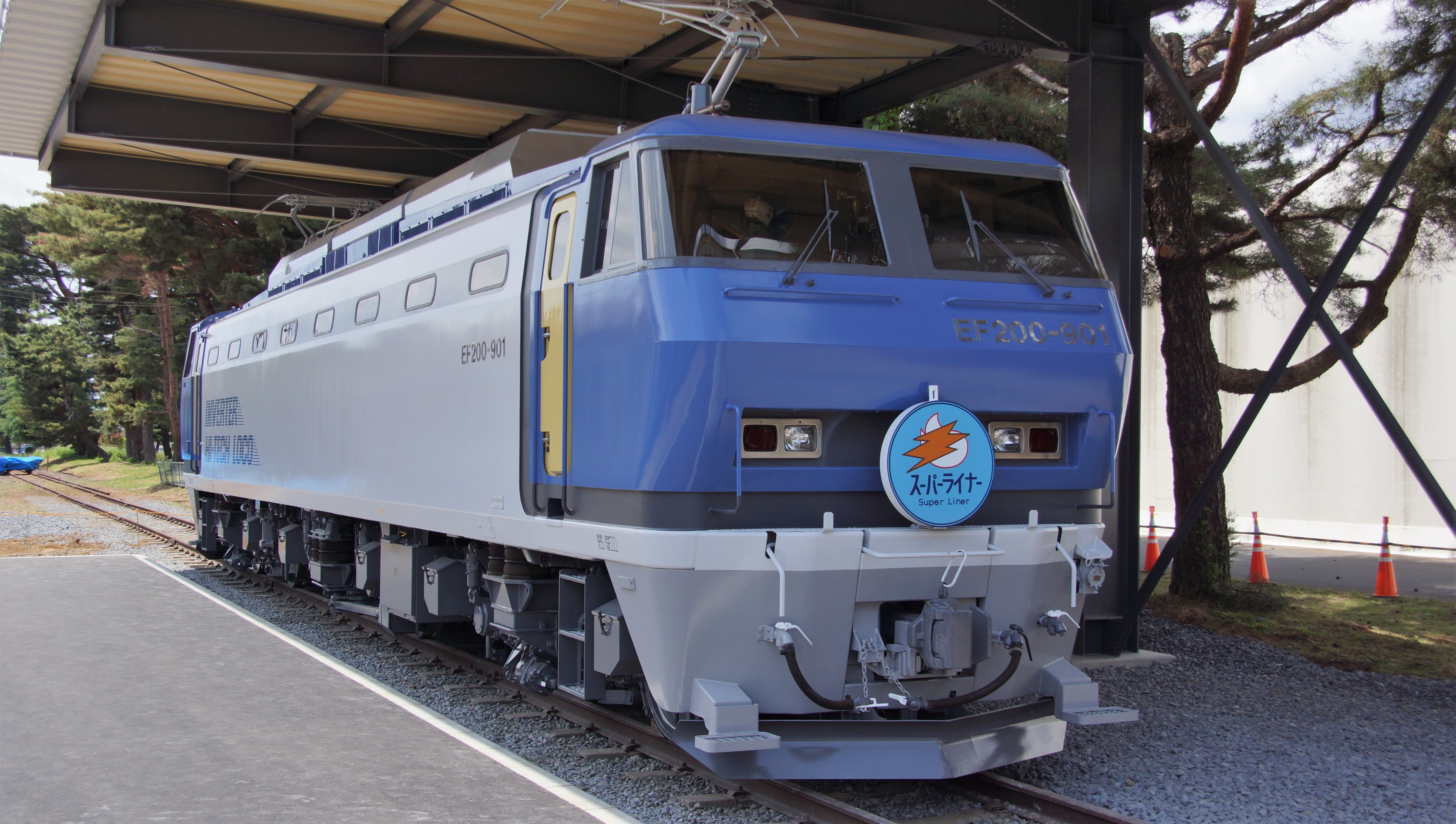 Preserved prototype Class EF200 electric locomotive EF200-901 on display at the Hitachi Mito Factory annual "Satsuki Matsuri" open day in Hitachinaka, Ibaraki Prefecture, Japan